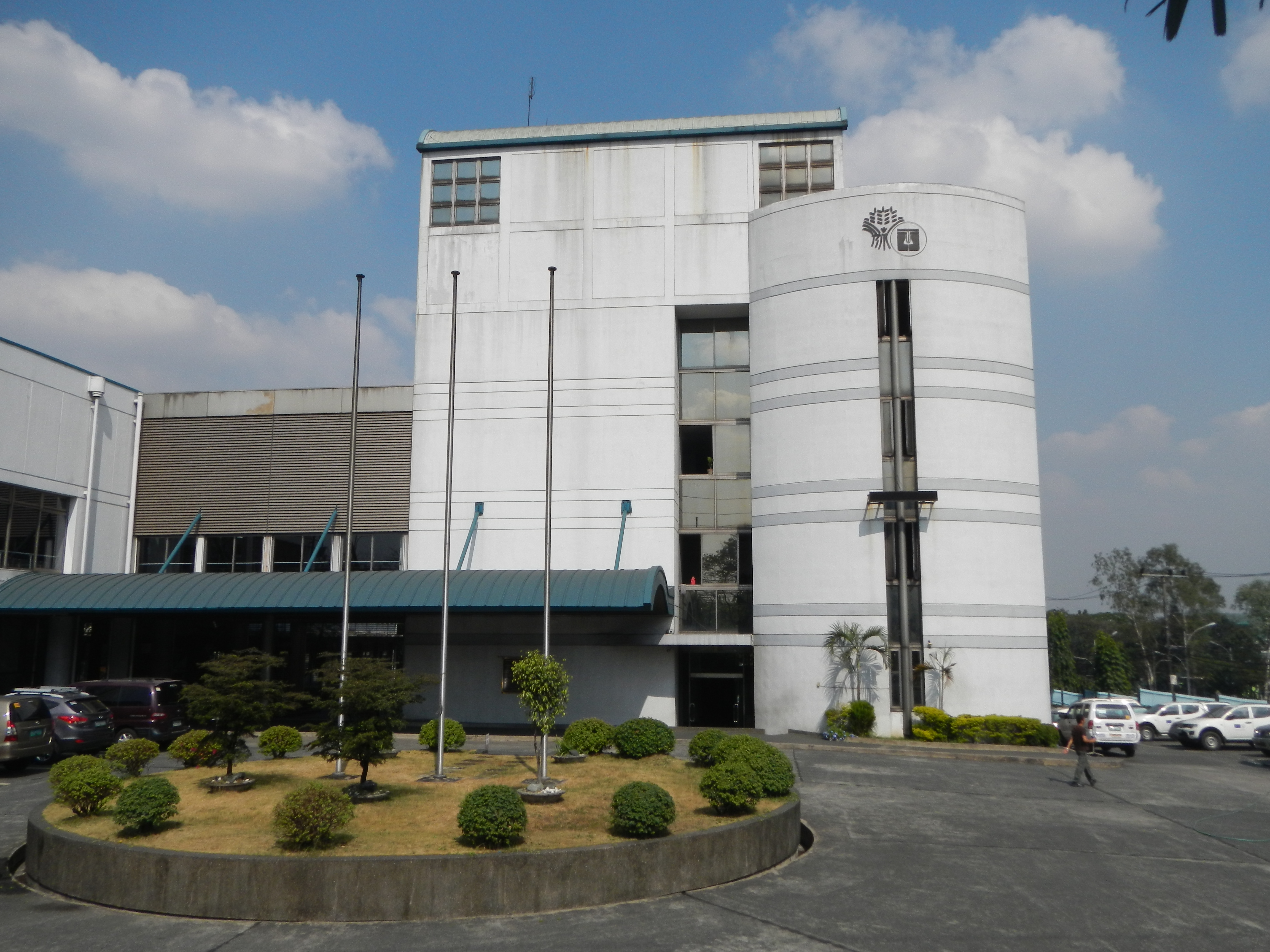 Bureau of Soils and Water Management (Philippines) Visayas Avenue, Vasra, Quezon City, Philippines is under the [Department of Agriculture (Philippines) [Elliptical Road Vasra, Diliman, Quezon City 1100.